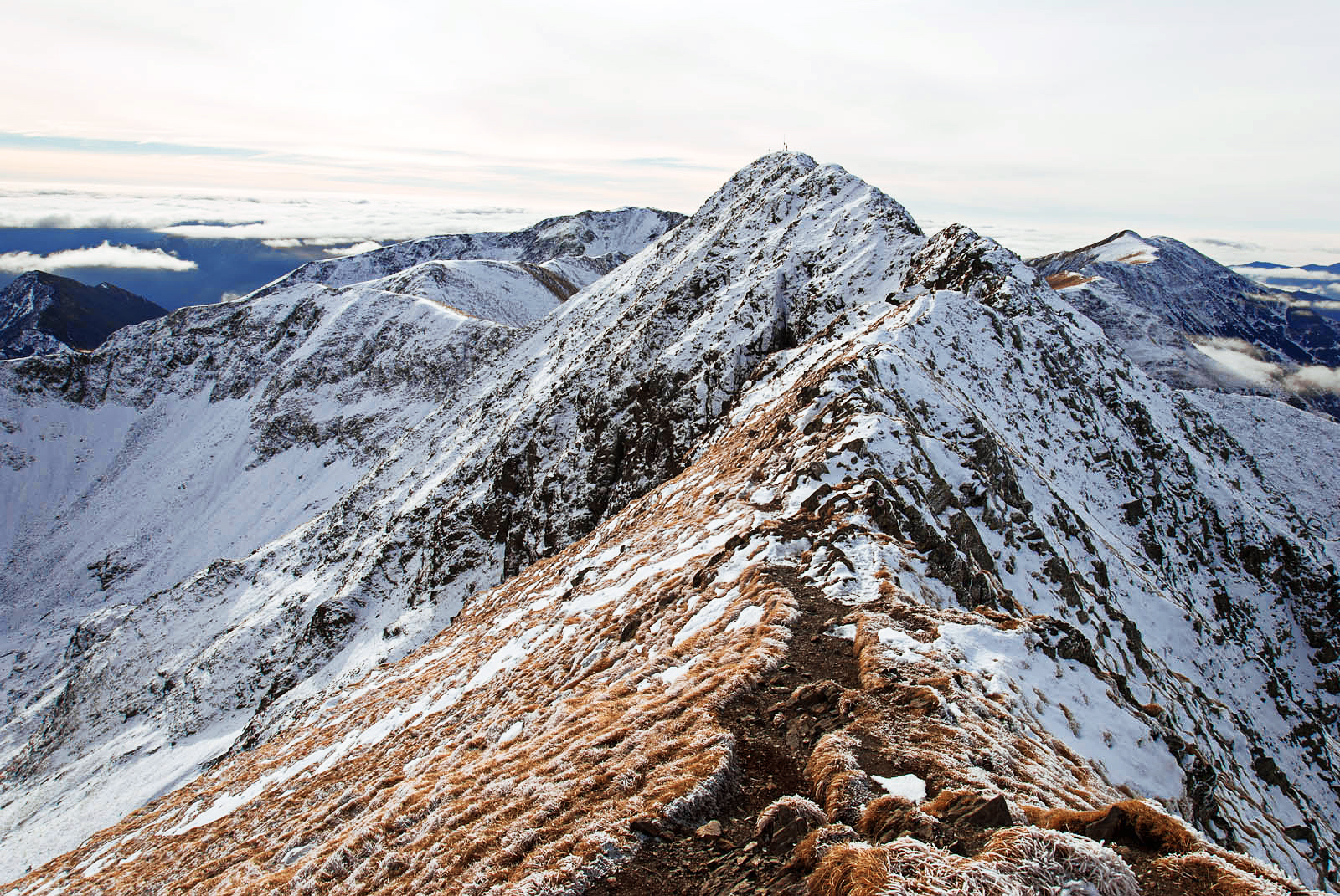 Moldoveanu Peak as seen from Vistea Mare Peak, 2527 meters asl